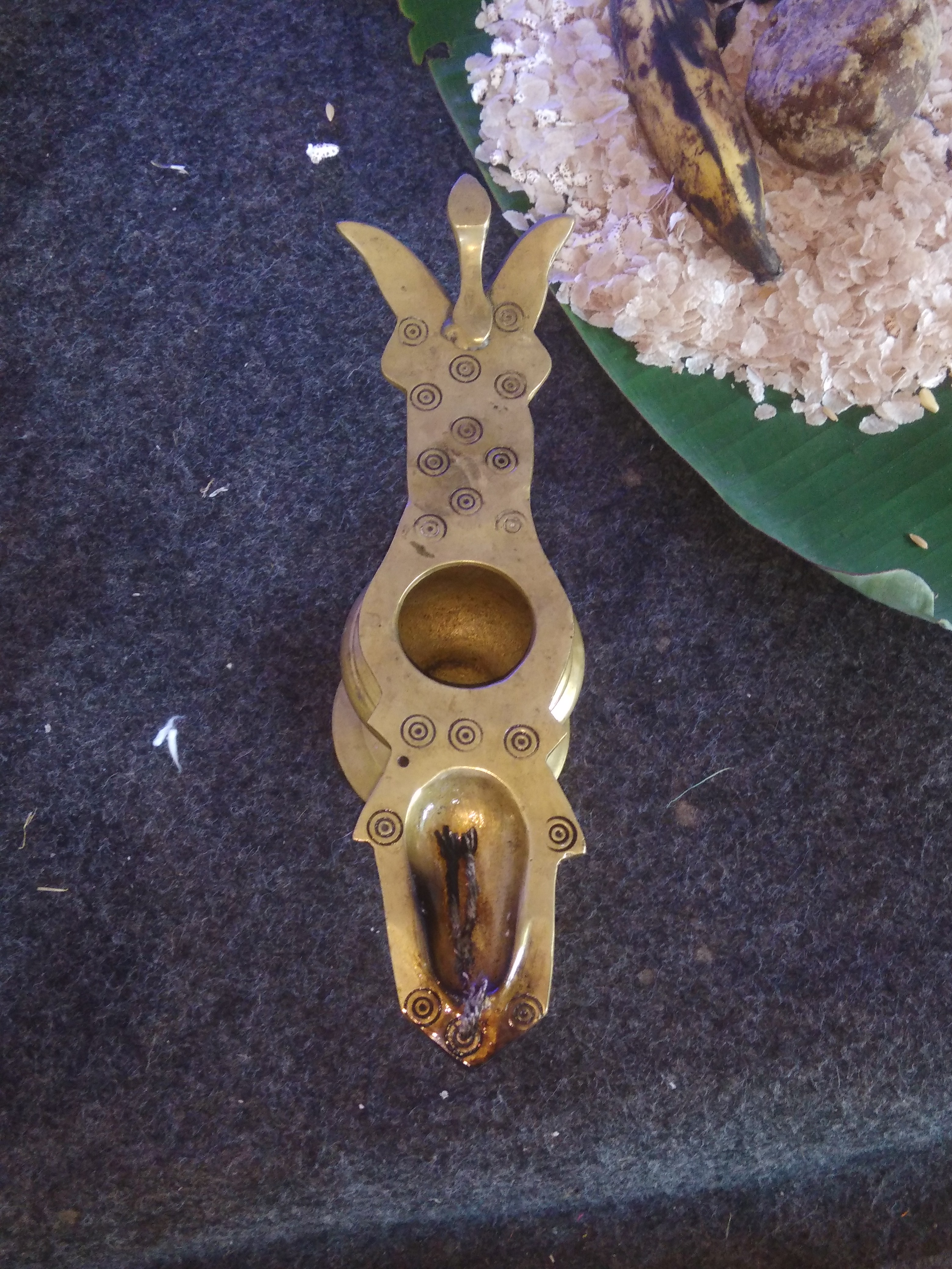 changalavatta - A kind of oil lamp with chain used in Kerala